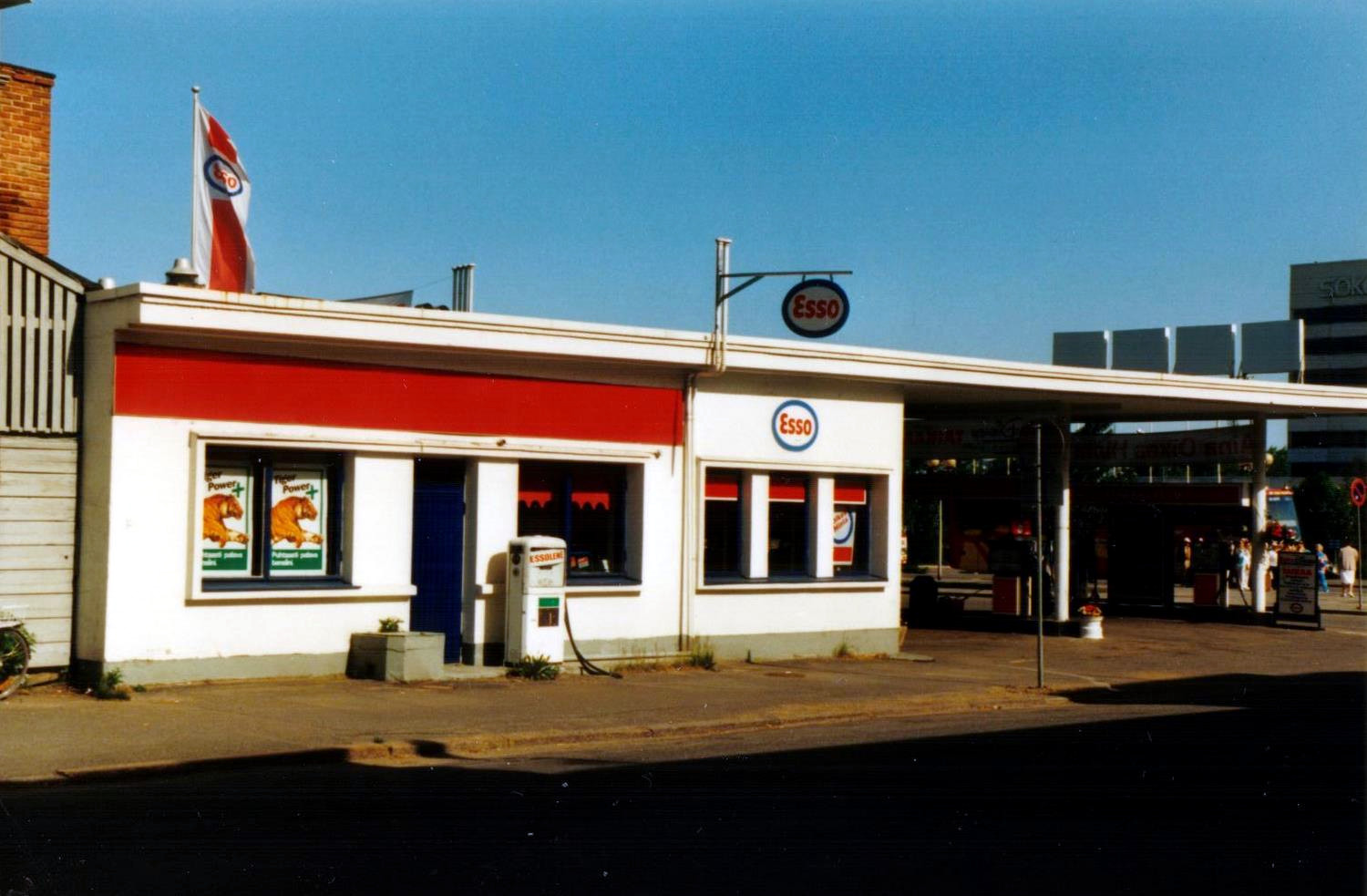 The petrol station in the Oulu market place in Oulu, Finland. The station was built in 1934 and torn down in 1993.